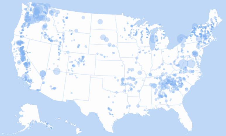 Hydroelectric power map